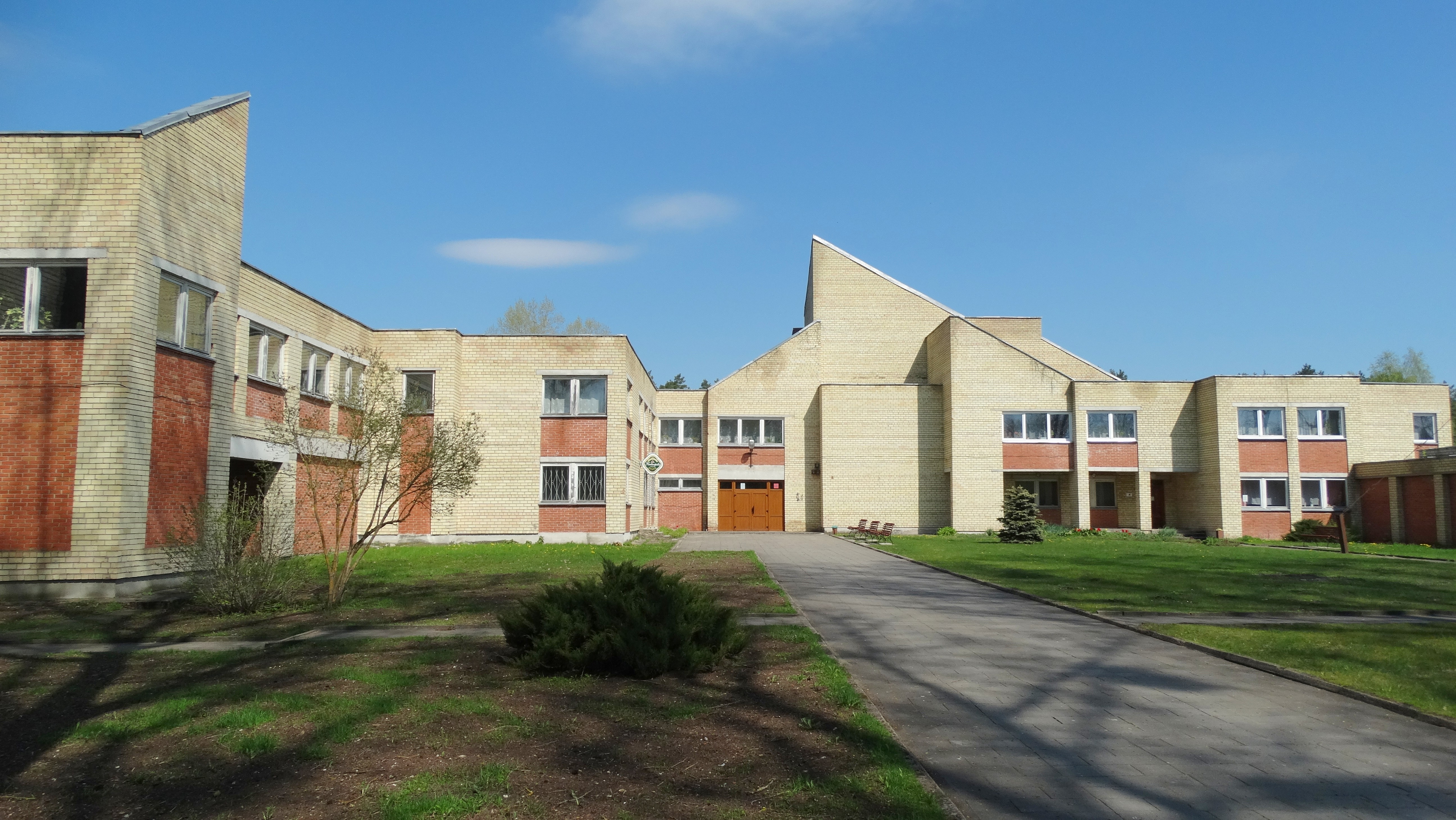 Centre of culture, Čiobiškis, Širvintos District, Lithuania